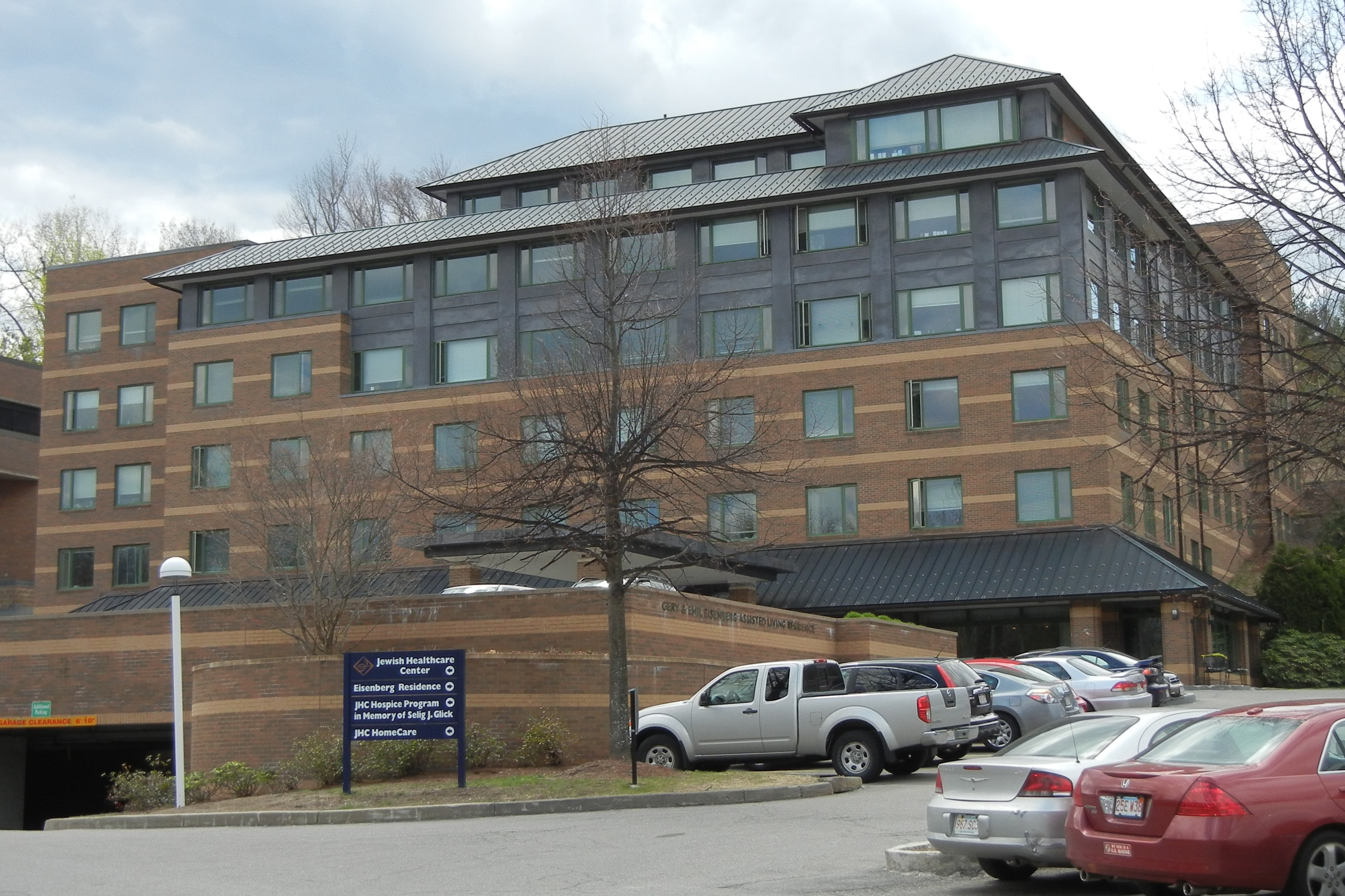 The Gery and Emil Eisenberg Assisted Living Residence at 631 Salisbury Street in Worcester, Massachusetts (USA)